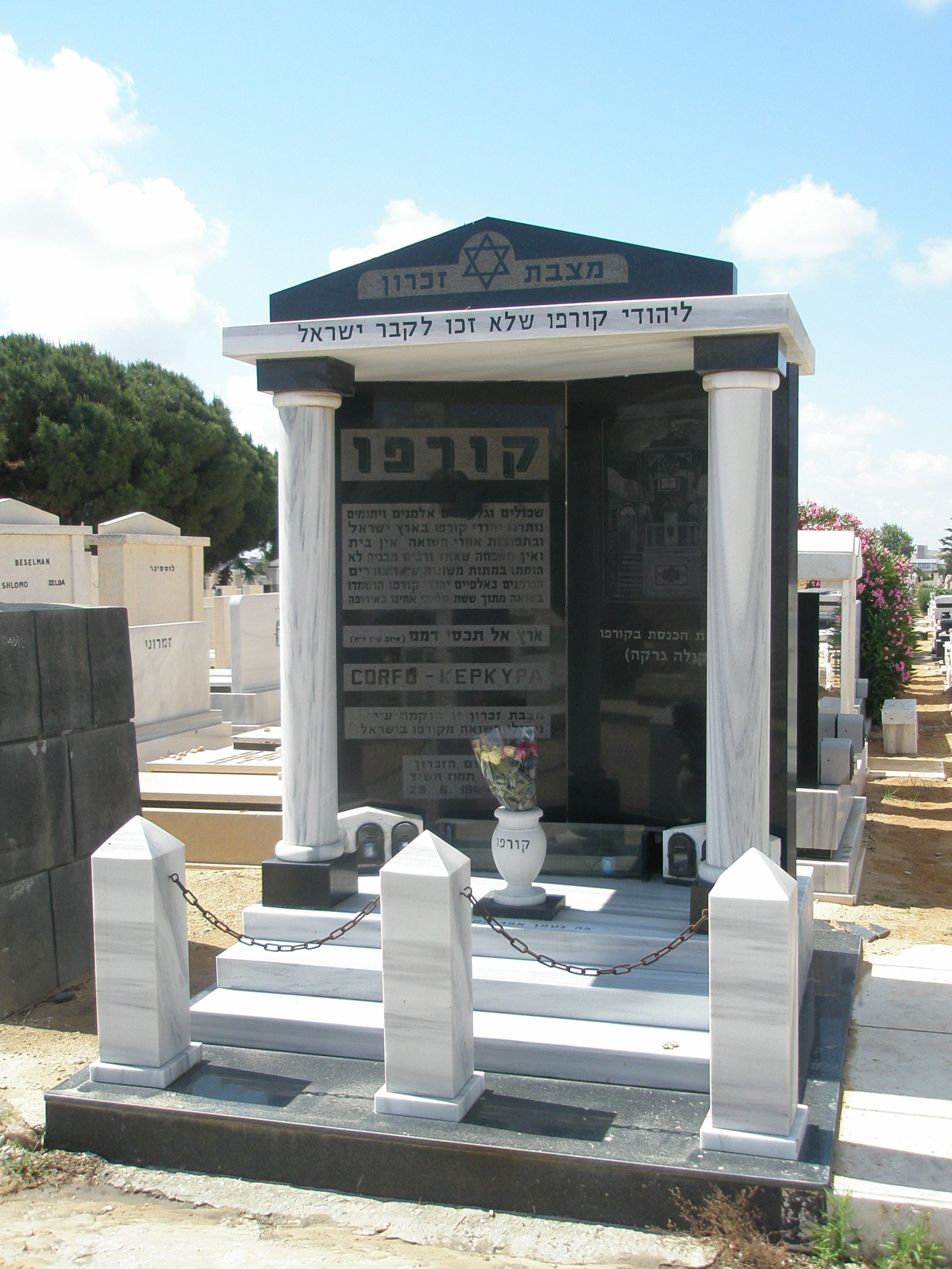 Corfu memorial at Holon Cemetery